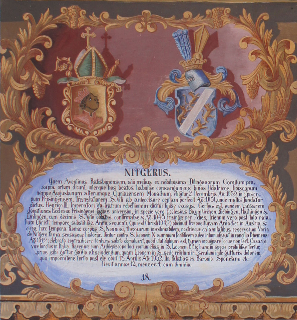 Wappentafel von Nitker, Bischof von Freising, im Fürstengang zwischen Fürstbischöflicher Residenz und Freisinger Dom. Links das geistliche, rechts das persönliche Wappen, darunter ein lateinischer Text mit kurzer Biographie.